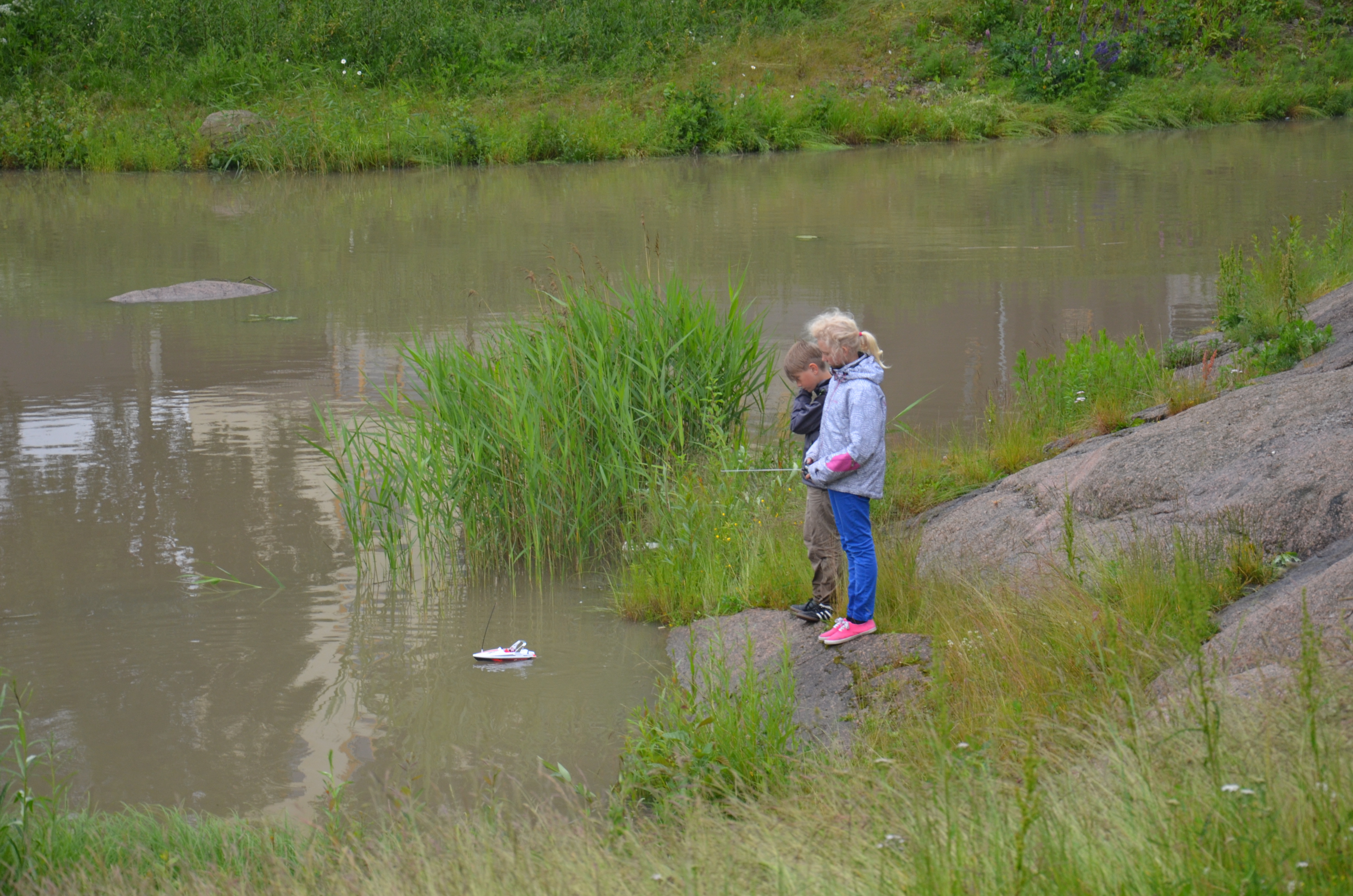 Modellsegling, Lilla Å-promenaden i Örebro